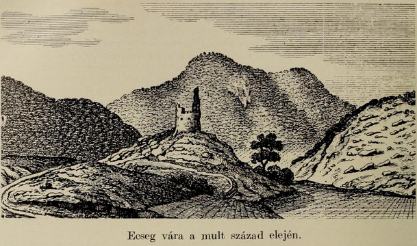 Fortress in Ecseg